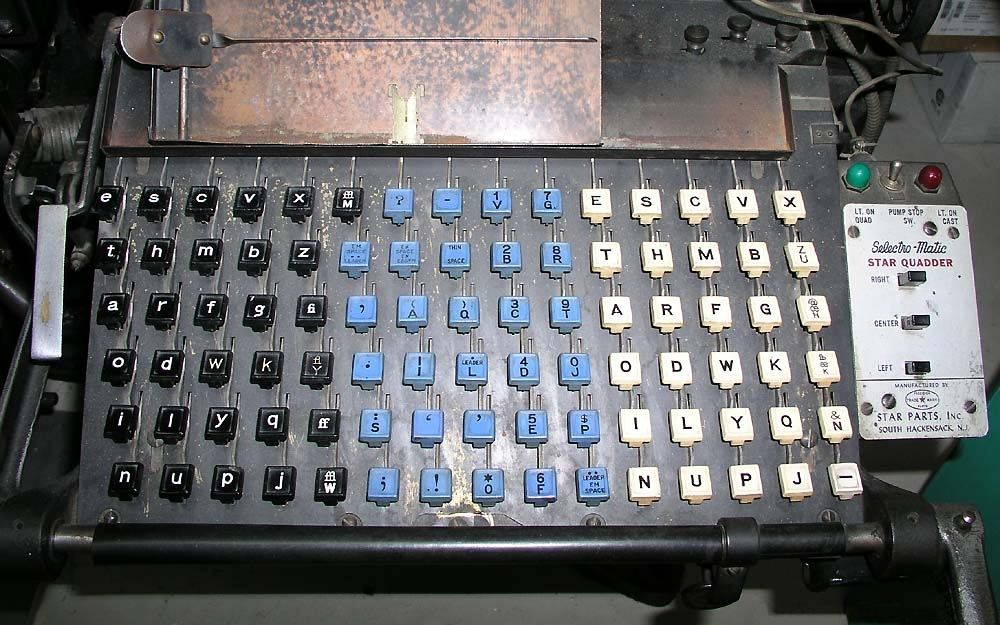 Linotype keyboard. Keys are arranged by order of frequency as they appear in the English language. Note that upper- and lower-case letters have separate keys.